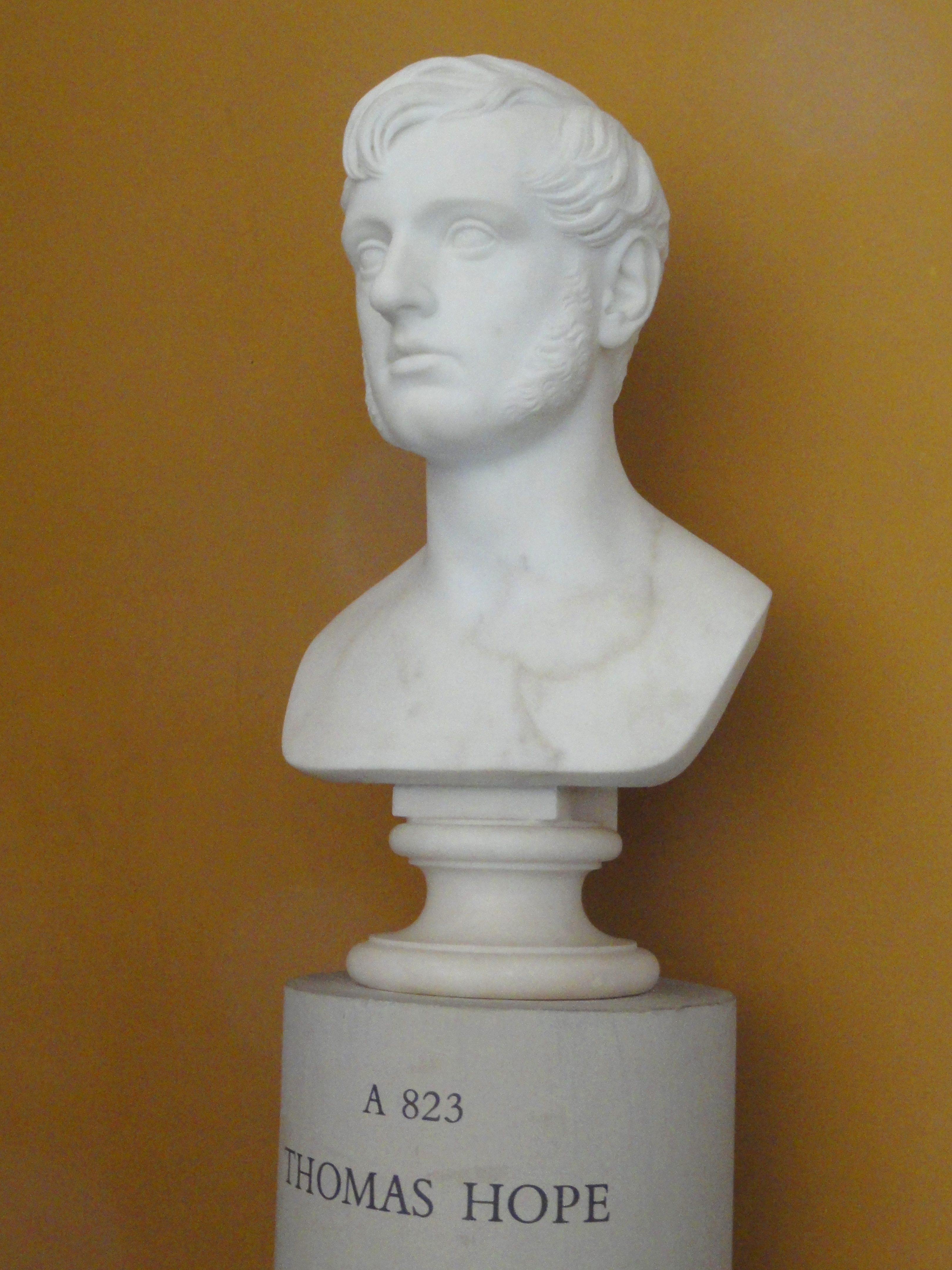 Sculpture in Thorvaldsens Museum, Copenhagen, Denmark. Sculptor: Bertel Thorvaldsen (c. 1770-1844). This artwork is now in the public domain because the artist died more than 70 years ago.